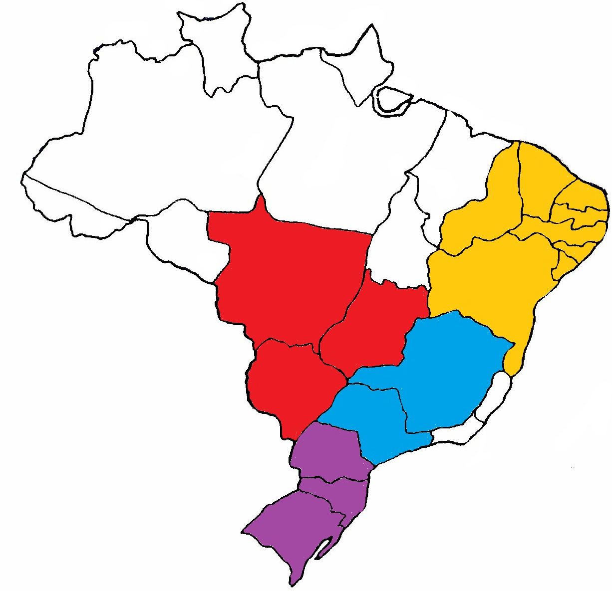 Archidiaceae (a family of mosses) distribution in the Brazilian states